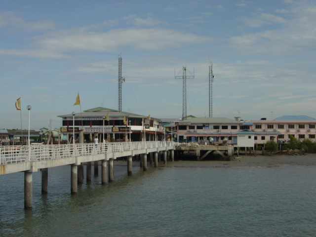 The main jetty on Pulau Ketam.